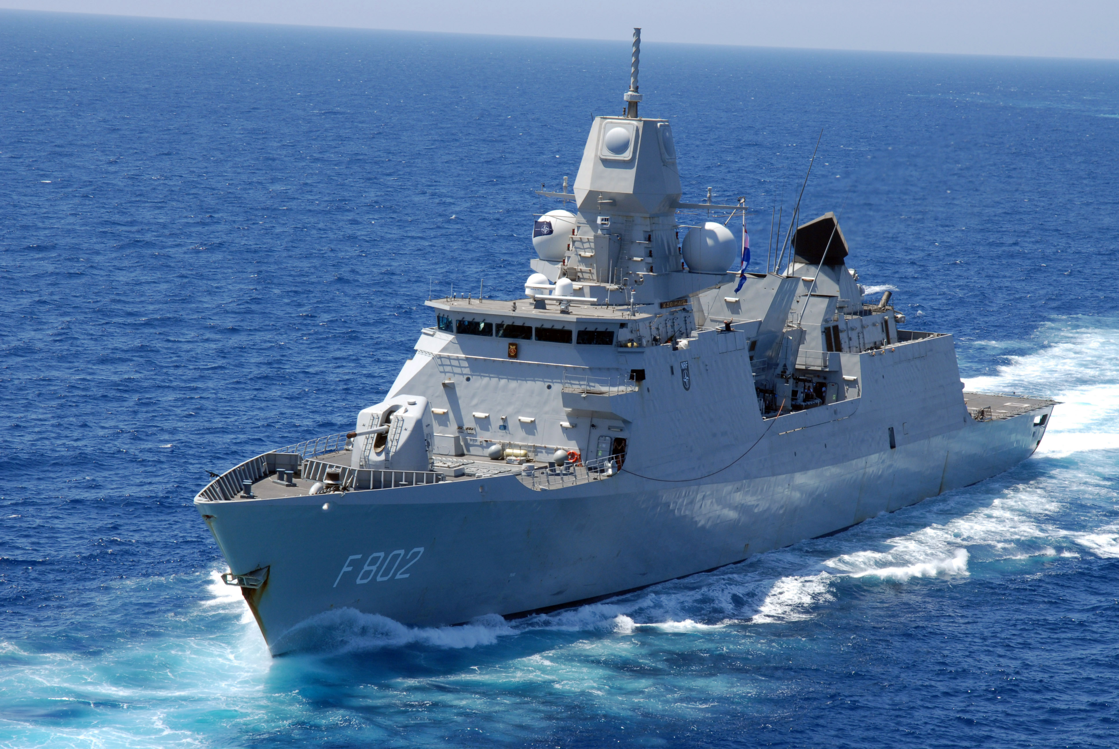 090713-N-0901C-062 ATLANTIC OCEAN (July 13, 2009) The Dutch Navy ship HNLMS De Zeven Provinciën (F 802) participates in a pass and review during the North Atlantic Council at Sea Day.